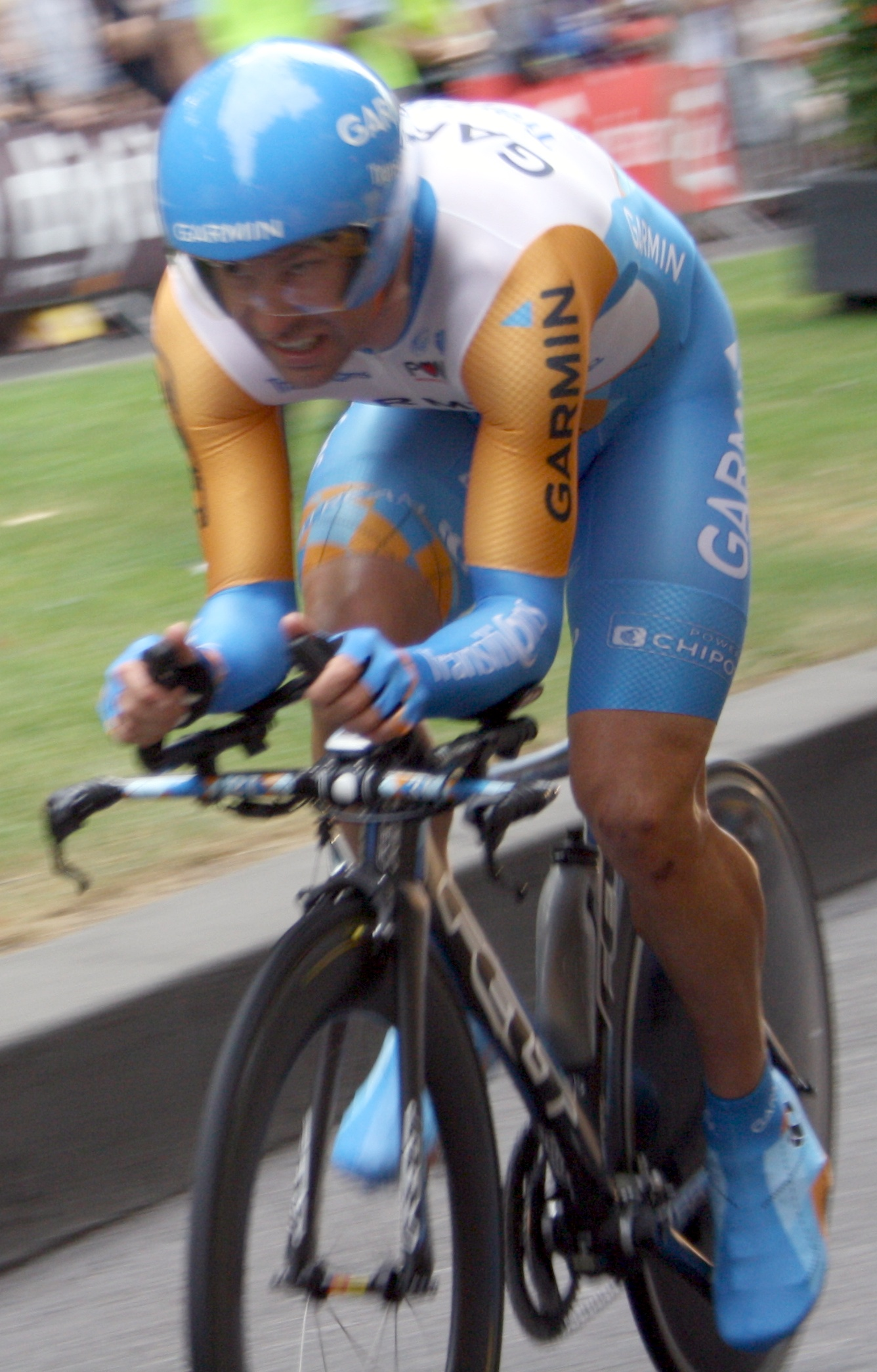 Julian Dean at the prologue of the 2010 Tour de France in Rotterdam